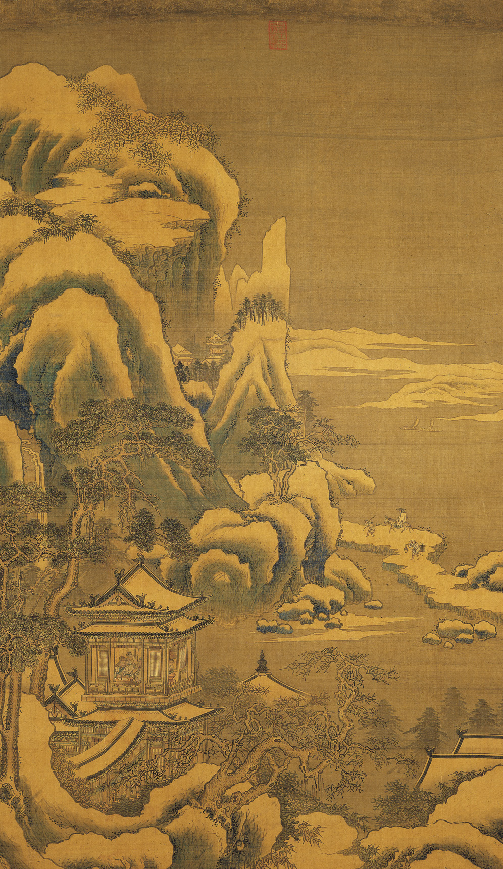 Auspicious Snow, hanging scroll, color on silk, 139.6 x 91.5 cm. Located at the National Palace Museum, Taibei.